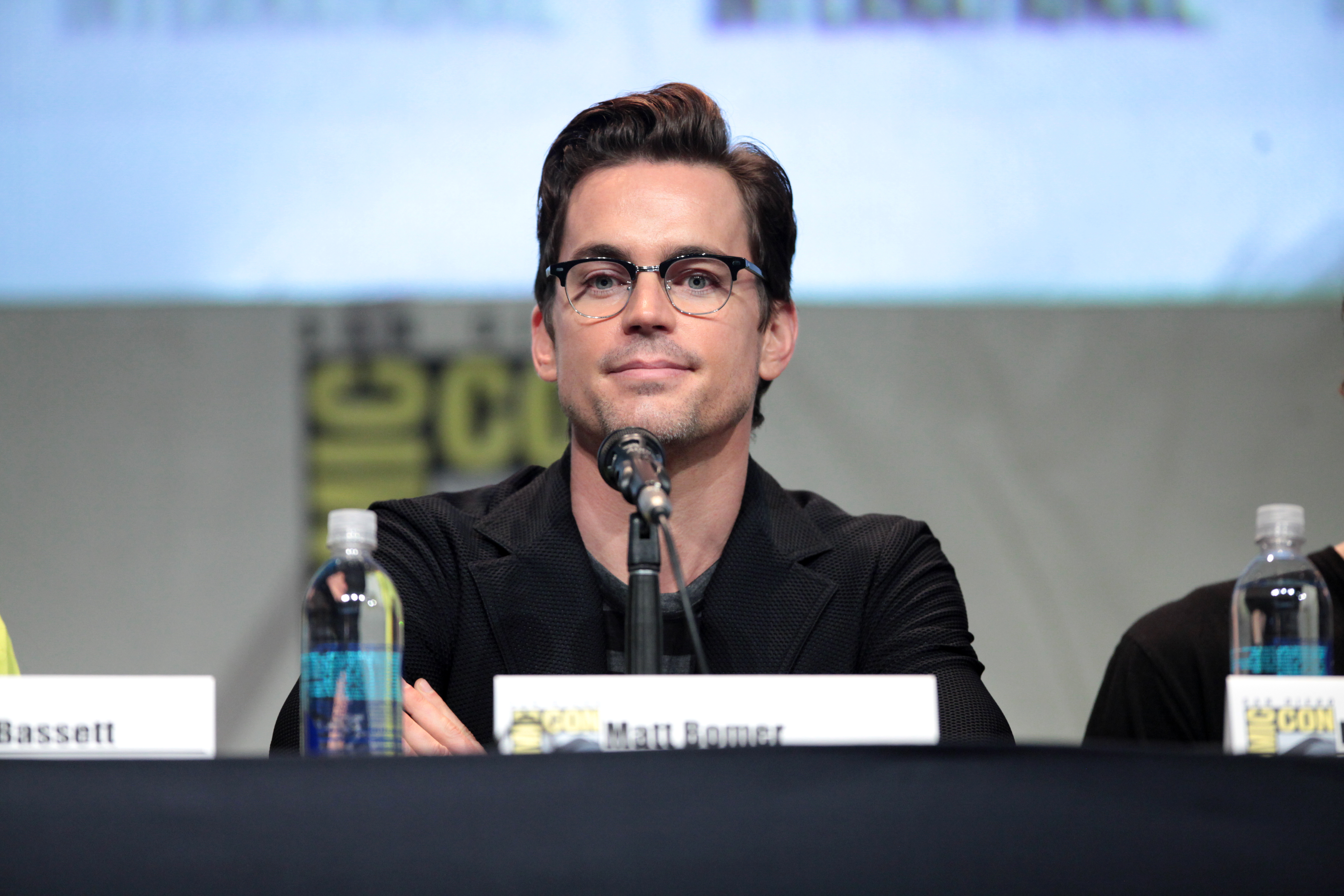 Matt Bomer speaking at the 2015 San Diego Comic Con International, for "American Horror Story", at the San Diego Convention Center in San Diego, California.